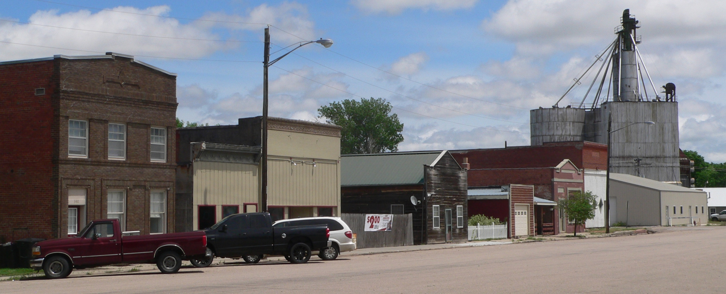 Downtown Staplehurst, Nebraska: north side of A Street, looking northeast from about 4th Street.